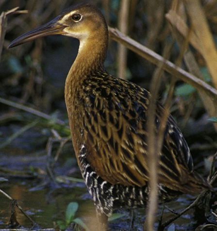 King Rail (Rallus elegans) at Clarence Cannon National Wildlife Refuge, Pike County, Missouri